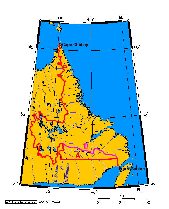 Line A: the boundary decided by the Privy Council; the current legal boundary. Line B: the boundary as it is sometimes portrayed by Quebec today. Place names and lines involved in the Labrador boundary dispute. © 2004 Indefatigable. Licensed under the GFDL. Created in the GIMP using a public-domain map generated by Online Map Creation.